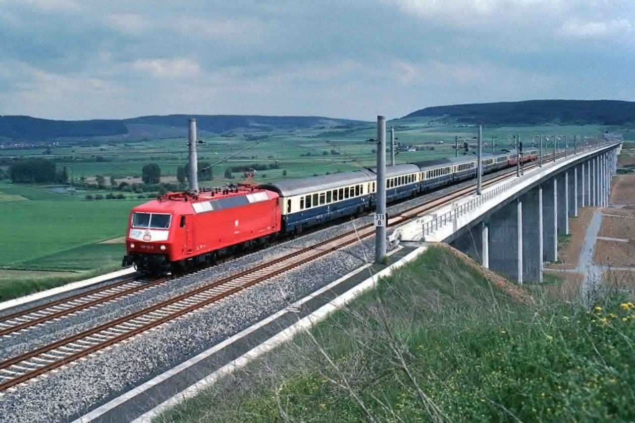 An InterCity train, pulled by 120 131, on its way from Würzburg to Fulda on Bartelgrabental Bridge (1160 meters). This picture was taken on the first day of regular passenger train operations on the new line.